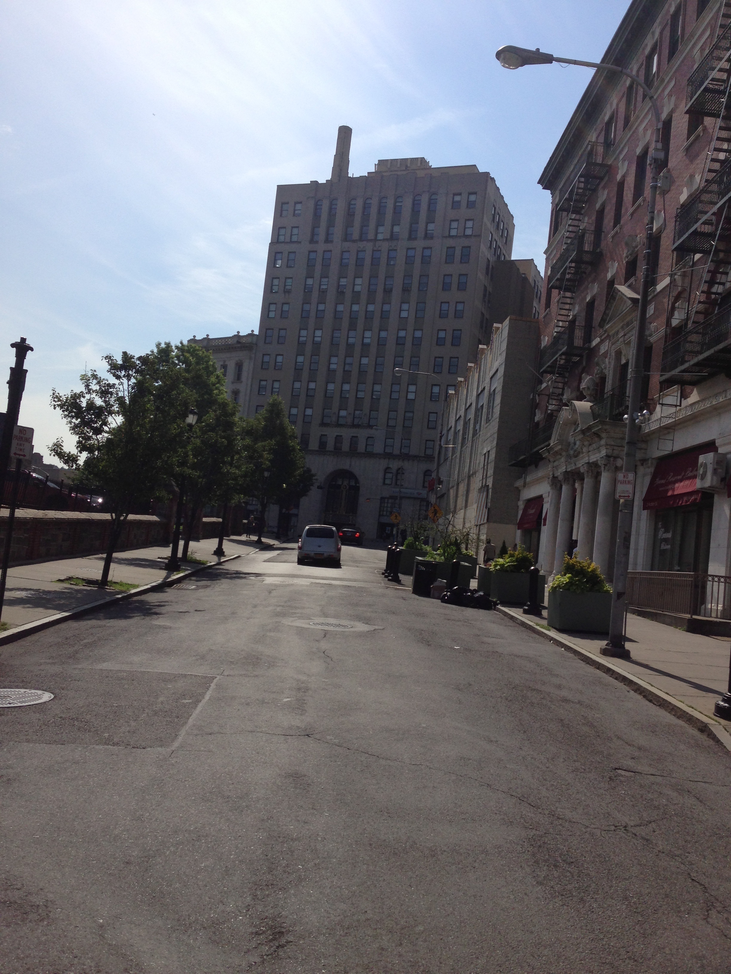 Looking east on Hudson Street in Yonkers, NY.